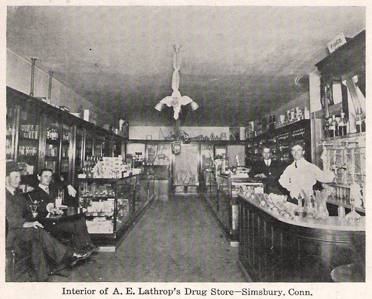 View of interior of the A. E. Lathrop Drug Store in Simsbury, Connecticut, sometime from 1901 to 1907.